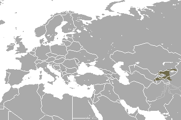 Turkestan Red Pika (Ochotona rutila) range